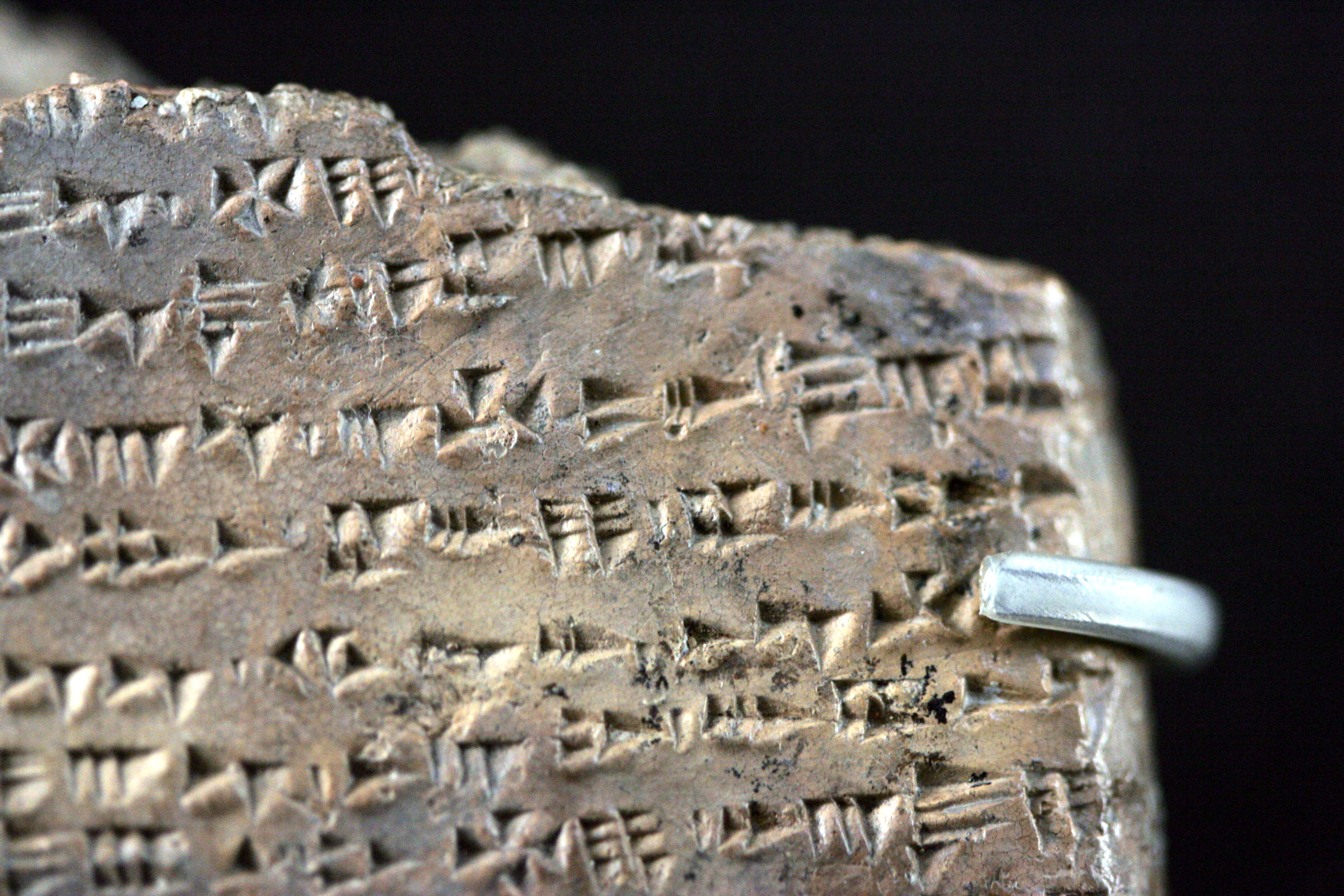 ArtistUnknownDescription Ugaritic language, Cuneiform script Baal Epic [1] terra cotta "Then Anat went to El, at the source of the rivers, in the middle of the bed of the two oceans. She bows at the feet of El, she bows and prosternates and pays him respects. She speaks and says: "the very mighty Ba'al is dead. The prince, lord of the earth, has died"" (...) "They fight like heroes. Môt wins, Ba'al wins. They bit each other like snakes. Môt wins, Ba'al wins. They jump like horses. Môt is scared. Ba'al sits on his throne" Current location (Inventory)Louvre Museum Native nameMusée du LouvreLocationParisCoordinates48° 51′ 37″ N, 2° 20′ 15″ E Established1793Website control : Q19675 VIAF: 257711507 ISNI: 0000 0001 2260 177X ULAN: 500125189 LCCN: n80020283 NLA: 35912436 WorldCat Sully Rez-de-chaussée Levant : Syrie côtière, Ougarit et Byblos Salle B, Display 12Accession numberAO 16636Credit lineFound by C. Schaeffer in 1933Source/PhotographerRama Ugaritic language, Cuneiform script Baal Epic [1] terra cotta "Then Anat went to El, at the source of the rivers, in the middle of the bed of the two oceans. She bows at the feet of El, she bows and prosternates and pays him respects. She speaks and says: "the very mighty Ba'al is dead. The prince, lord of the earth, has died"" (...) "They fight like heroes. Môt wins, Ba'al wins. They bit each other like snakes. Môt wins, Ba'al wins. They jump like horses. Môt is scared. Ba'al sits on his throne"